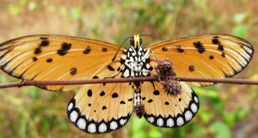 Acraea terpsicore